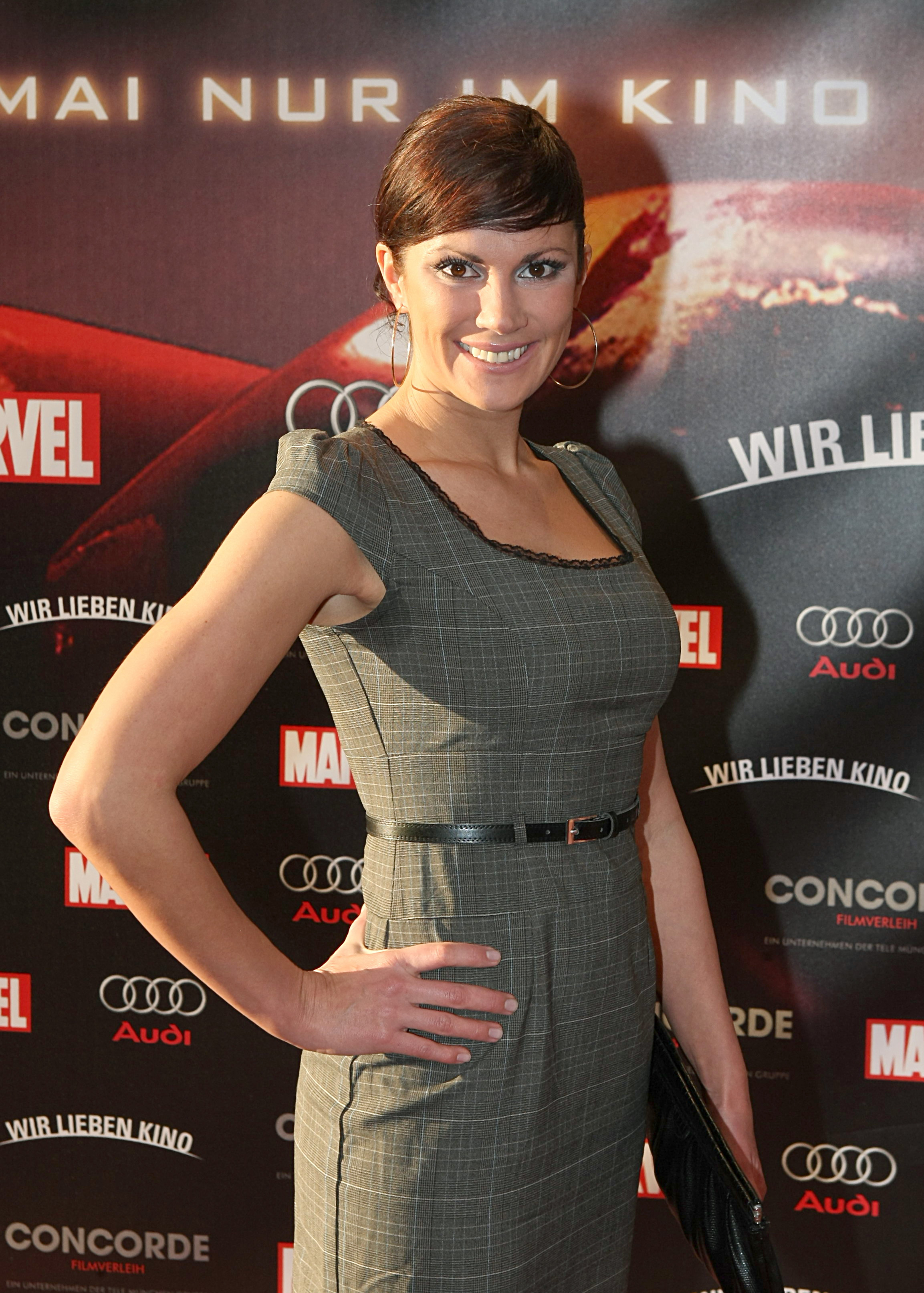 Kerstin Linnartz attending Iron Man premiere in Berlin